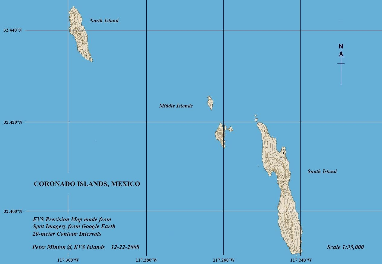 Topographic map of Coronado Islands, Mexico - EVS Precison Map (1:35,000)